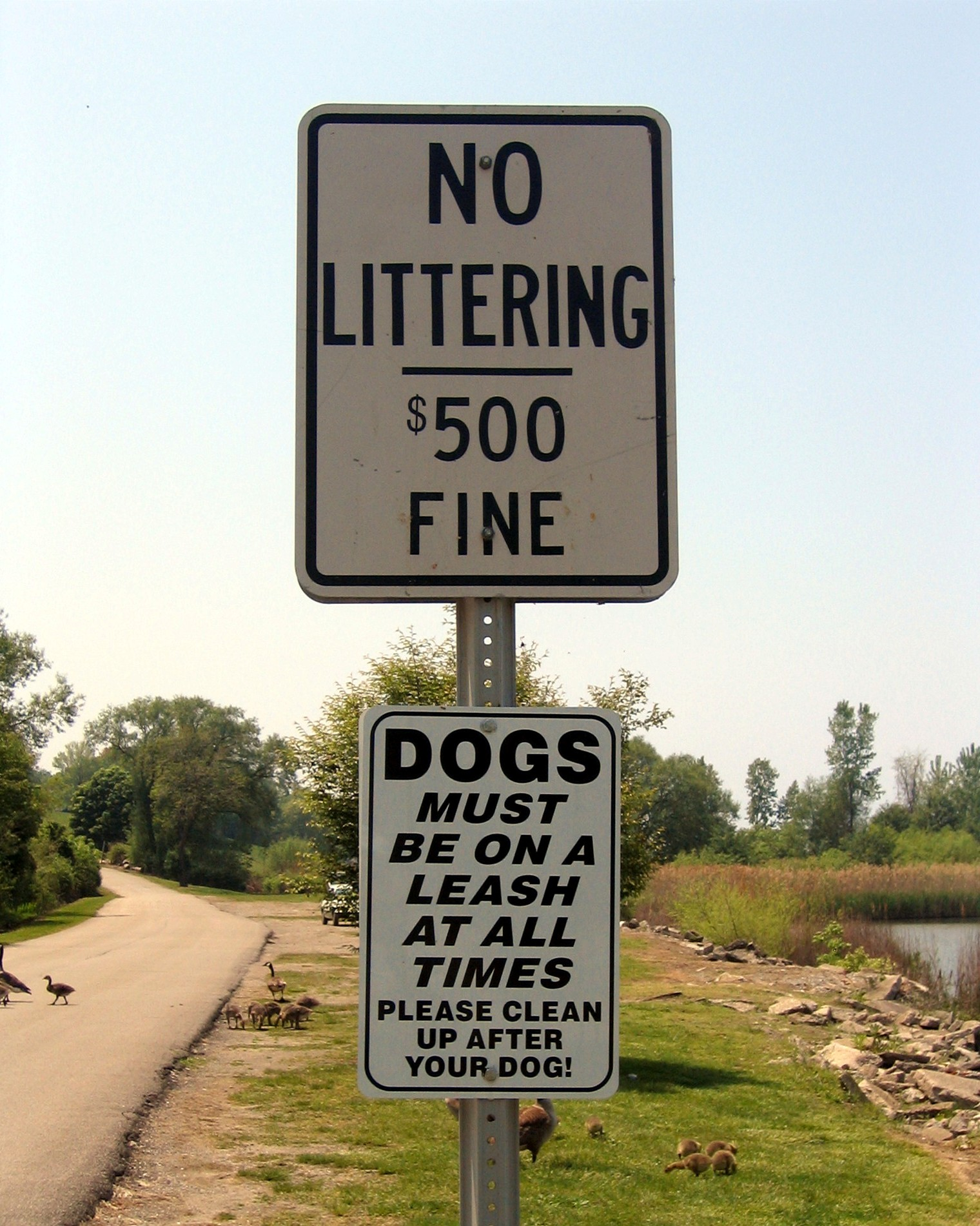 —Public Domain Sign (“NO LITTERING - $500 FINE”, “DOGS MUST BE ON A LEASH AT ALL TIMES. PLEASE CLEAN-UP AFTER YOUR DOG!”) near Conneaut Harbor in Conneaut, Ohio